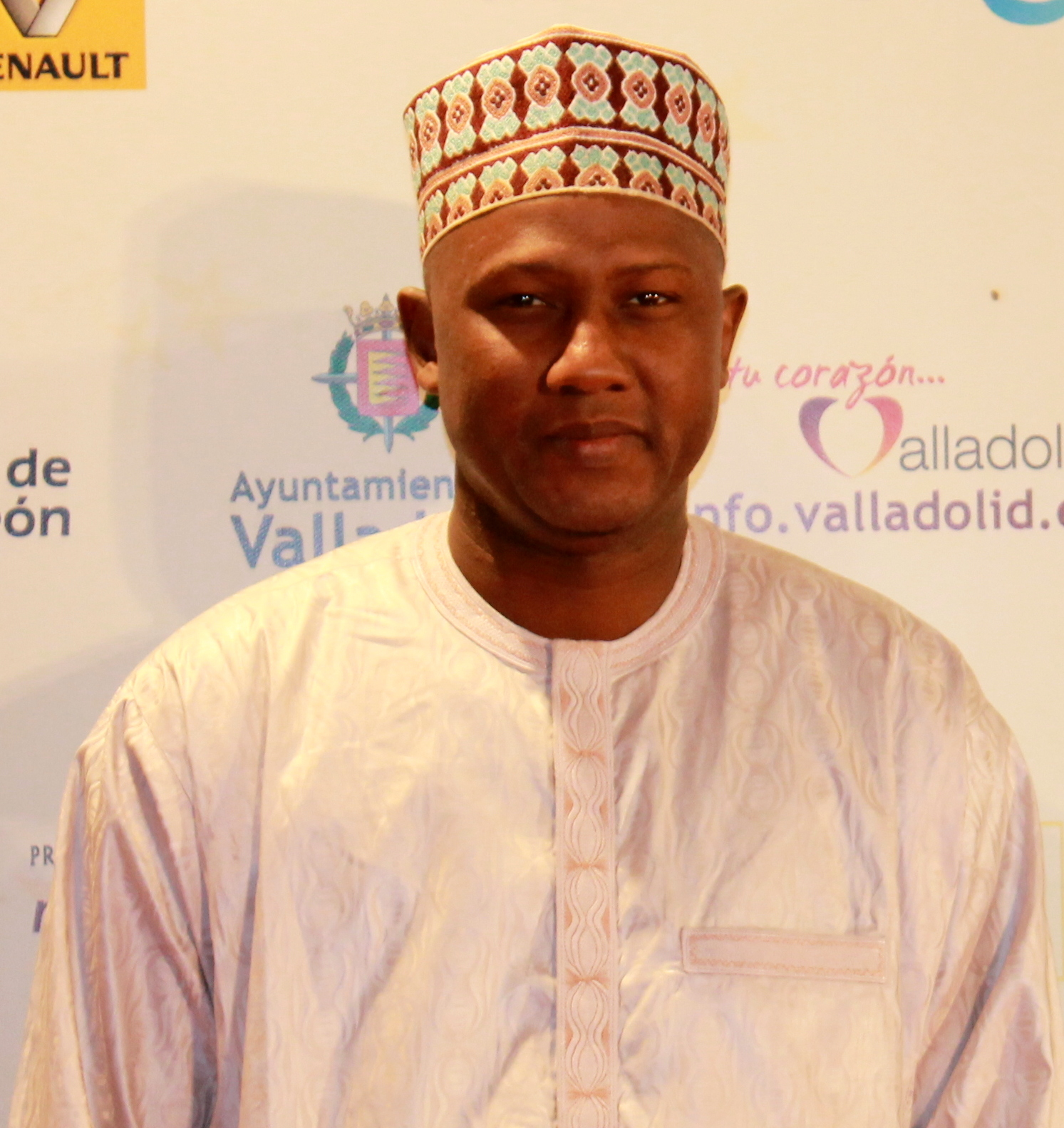 Ablaye Cissoko, Senelagese musician.